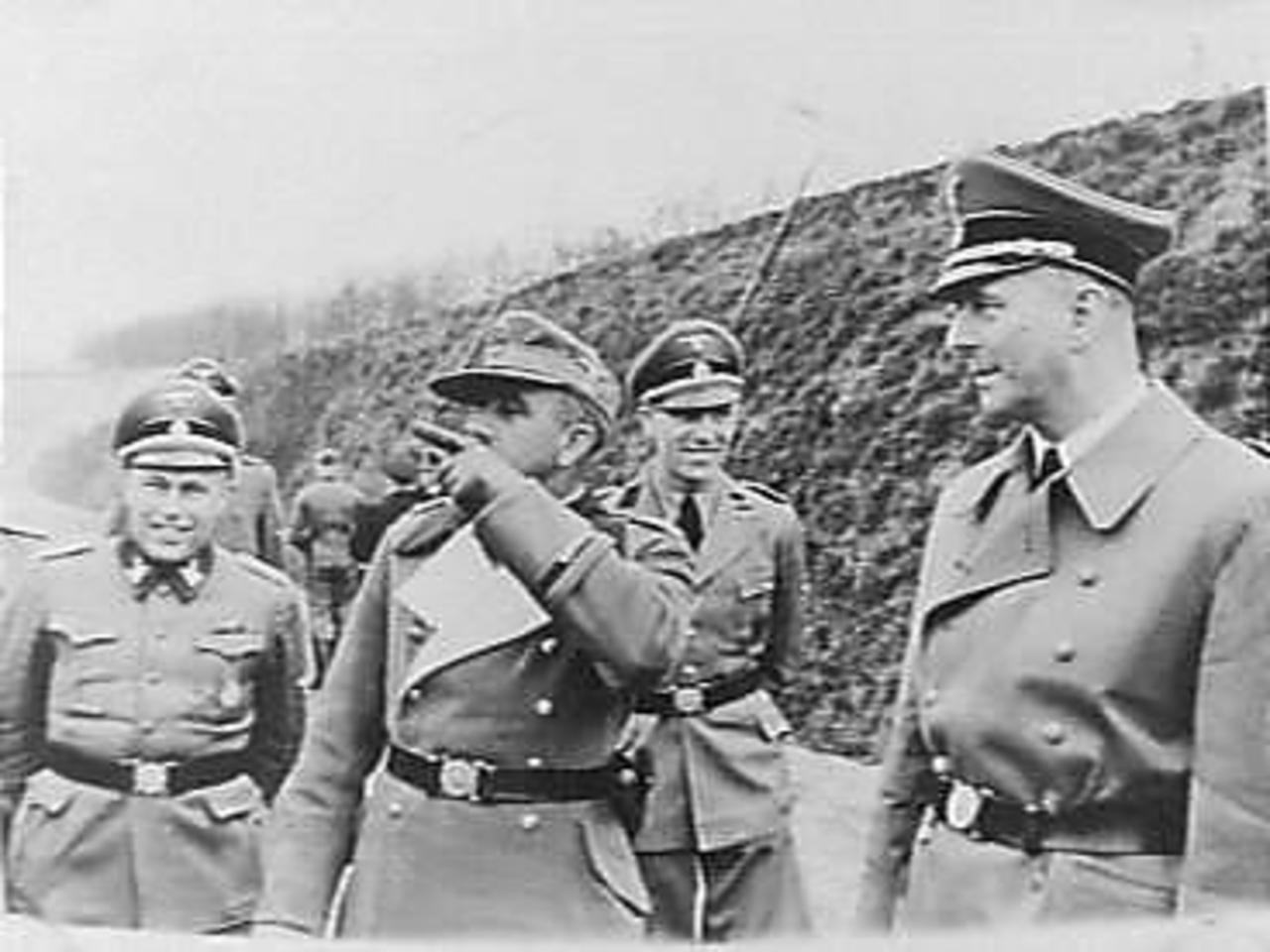 From left to right: Wilhelm Harster, Karl Maria Demelhuber, Erich Deppner and Hanns Albin Rauter. Place and date unknown. Probably The Netherlands, possibly Kamp Erika, Kamp Westerbork or Kamp Amersfoort, between April 1942 and September 1943. Most likely: July-August 1942